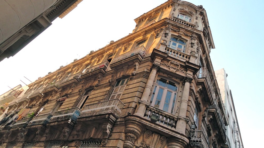 Building in Havana